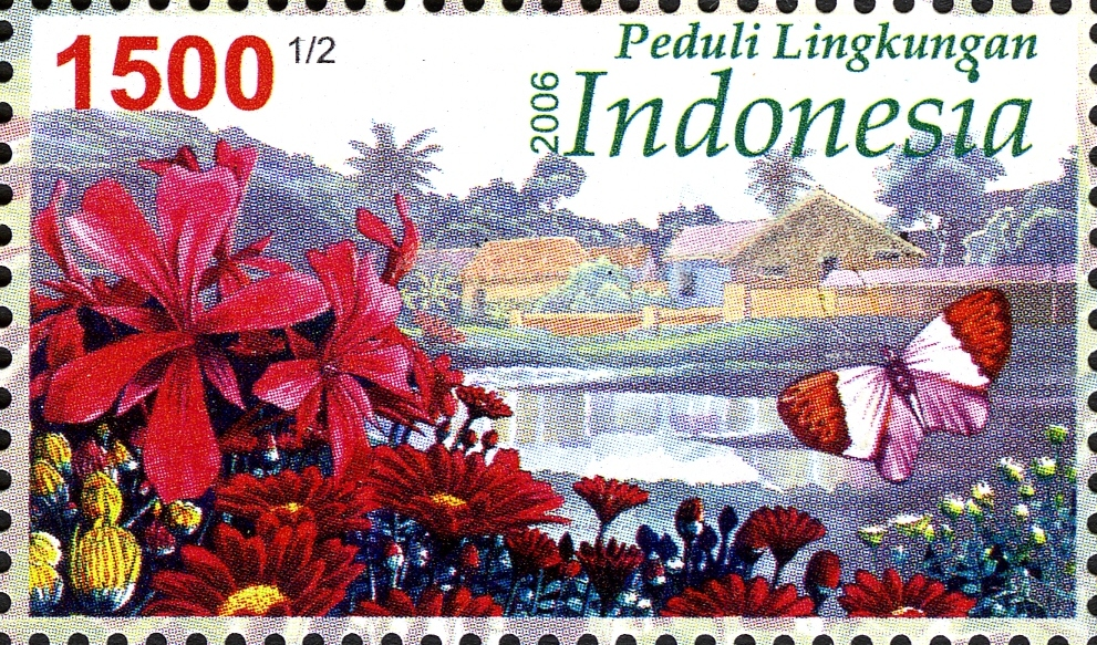 Stamps of Indonesia